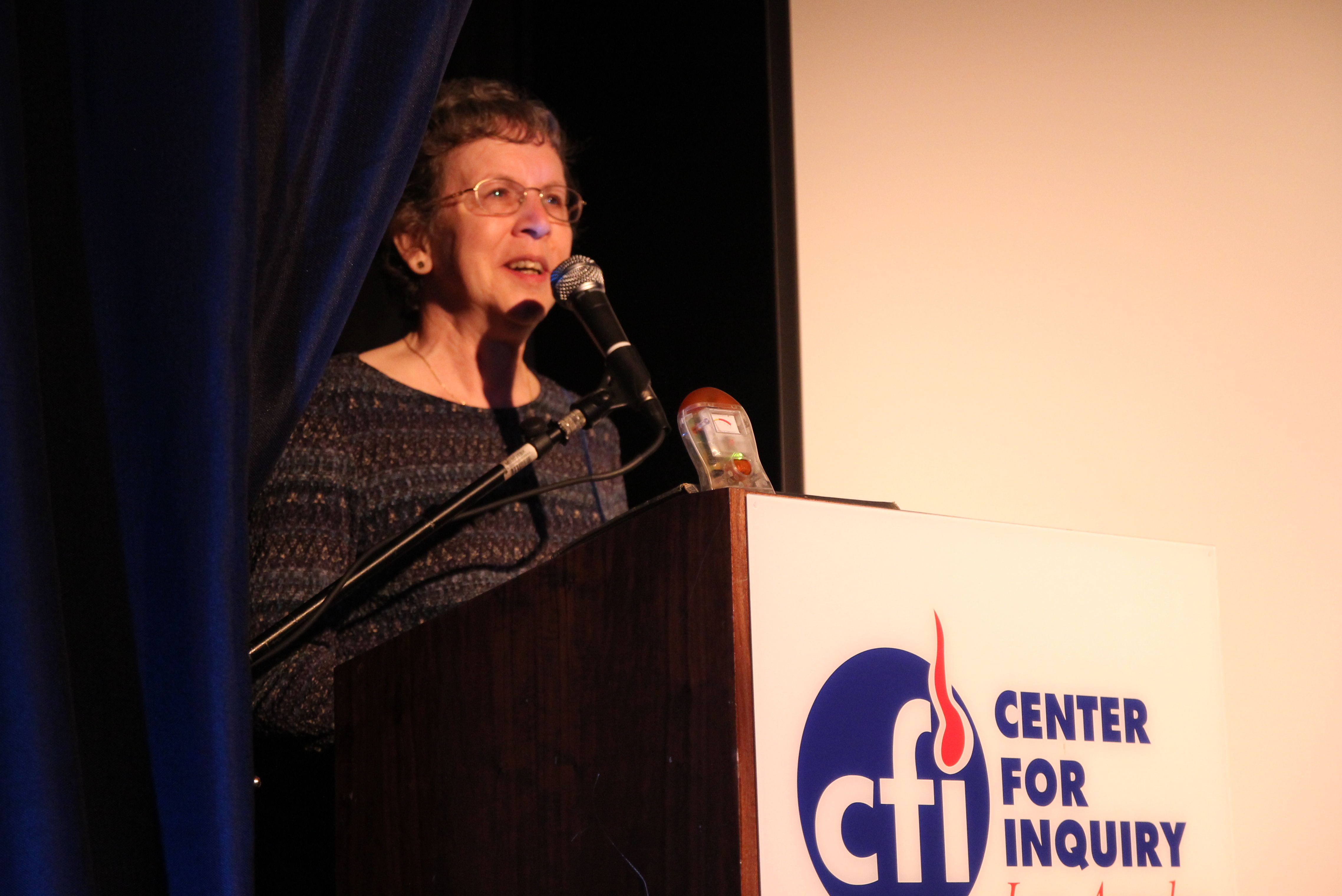 Dr. Harriet Hall receives an award for her work in skepticism/critical thinking from the IIG West.